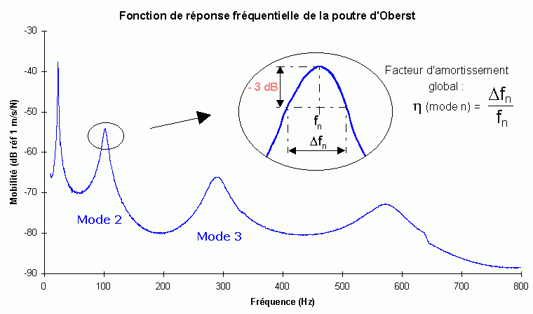 frequency response function of an Oberst beam (steel coated with a single layer of damping product).